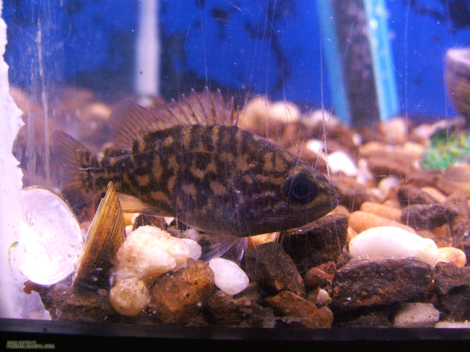 An oddly patterned warmouth (Lepomis gulosus) caught in an un-named tributary of the Flint River